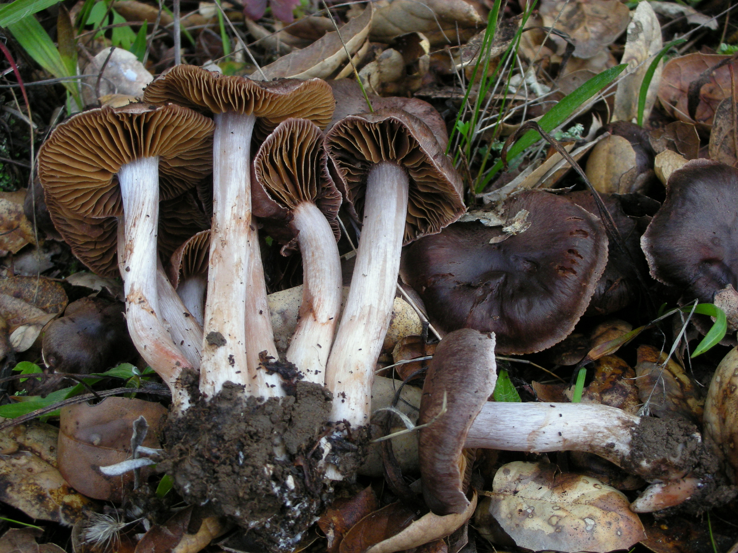 Fruit bodies of the agaric fungus Cortinarius ohlone. Photographed in Indian Valley Campus, College of Marin, Novato, California, USA.